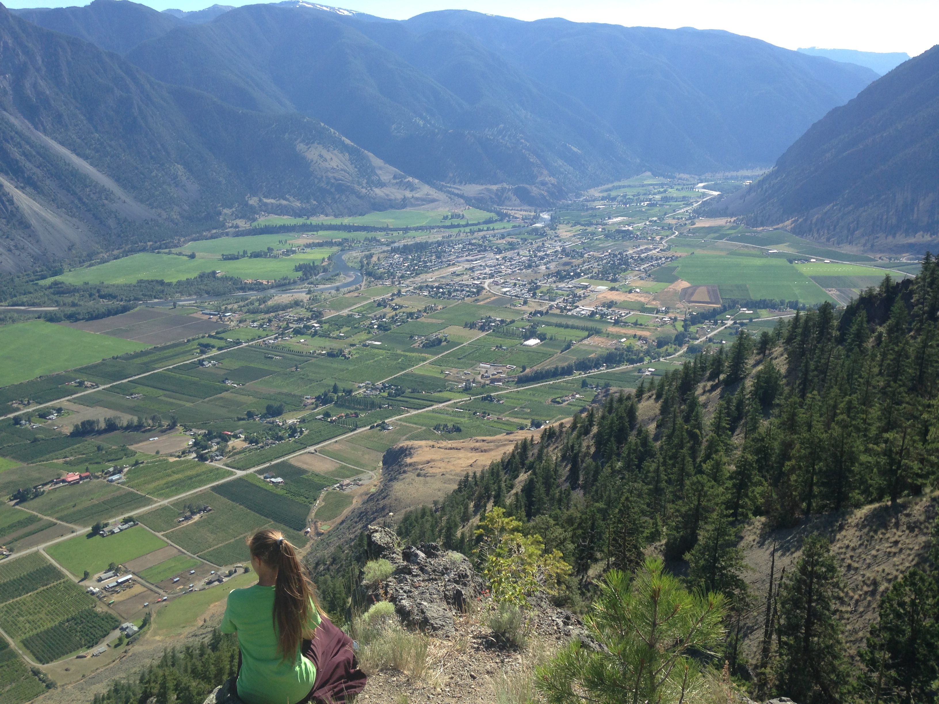 Keremeos (looking west) from a view point east of Pincushion.